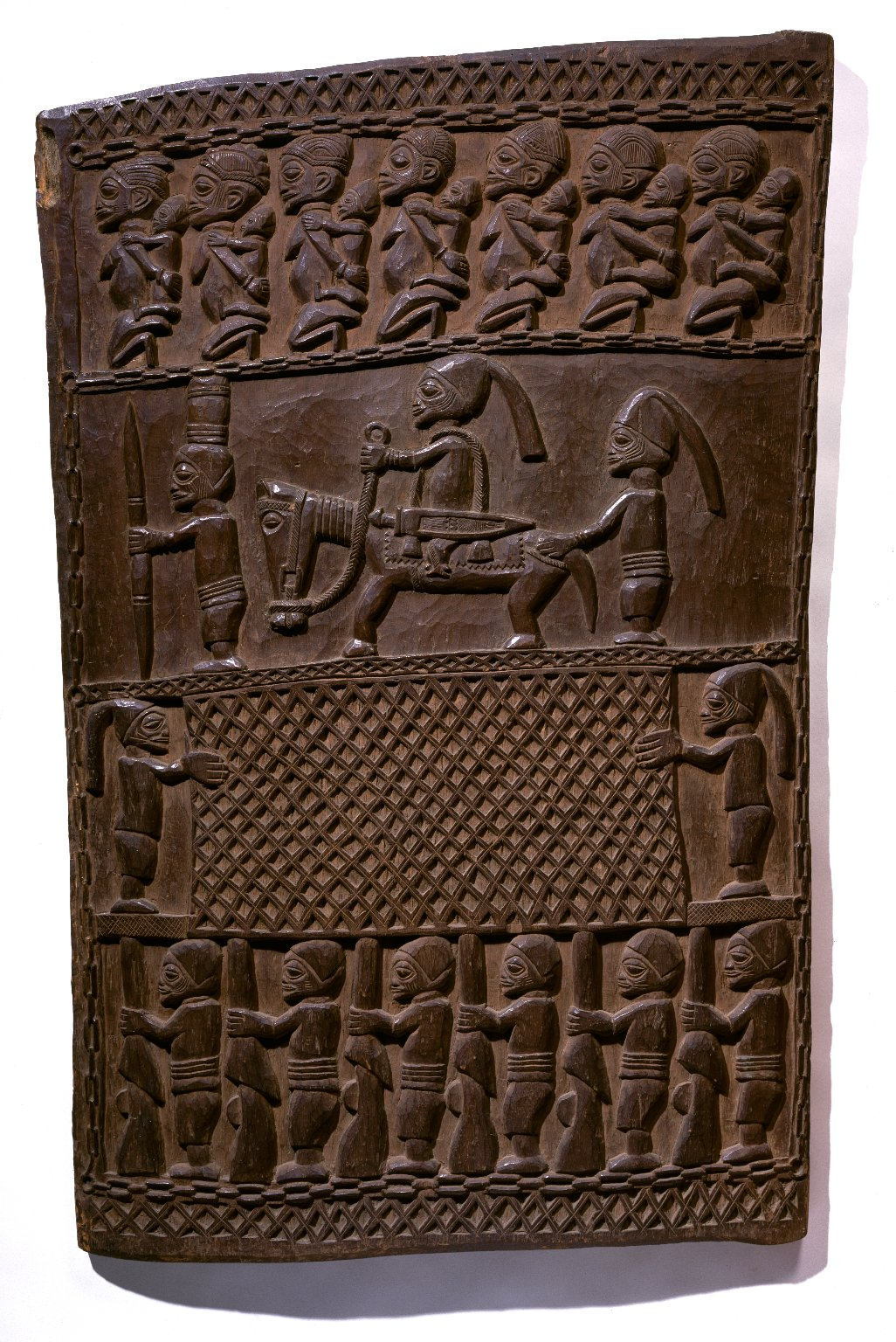 Carved wood door, divided into four horizontal bands, each with scene in bas relief. Band one- 7 mothers with children on back. Band 2- warlord flanked by two attendants, one of whom is a staffbearer. Band 3- two warriors holding net for hunting. Band 4- warriors with rifles sheathed. CONDITION: Good, top left corner lower than right.